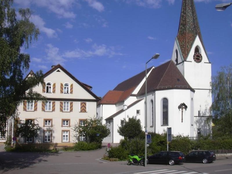 Castle and St. Martin's church in Donzdorf, Germany